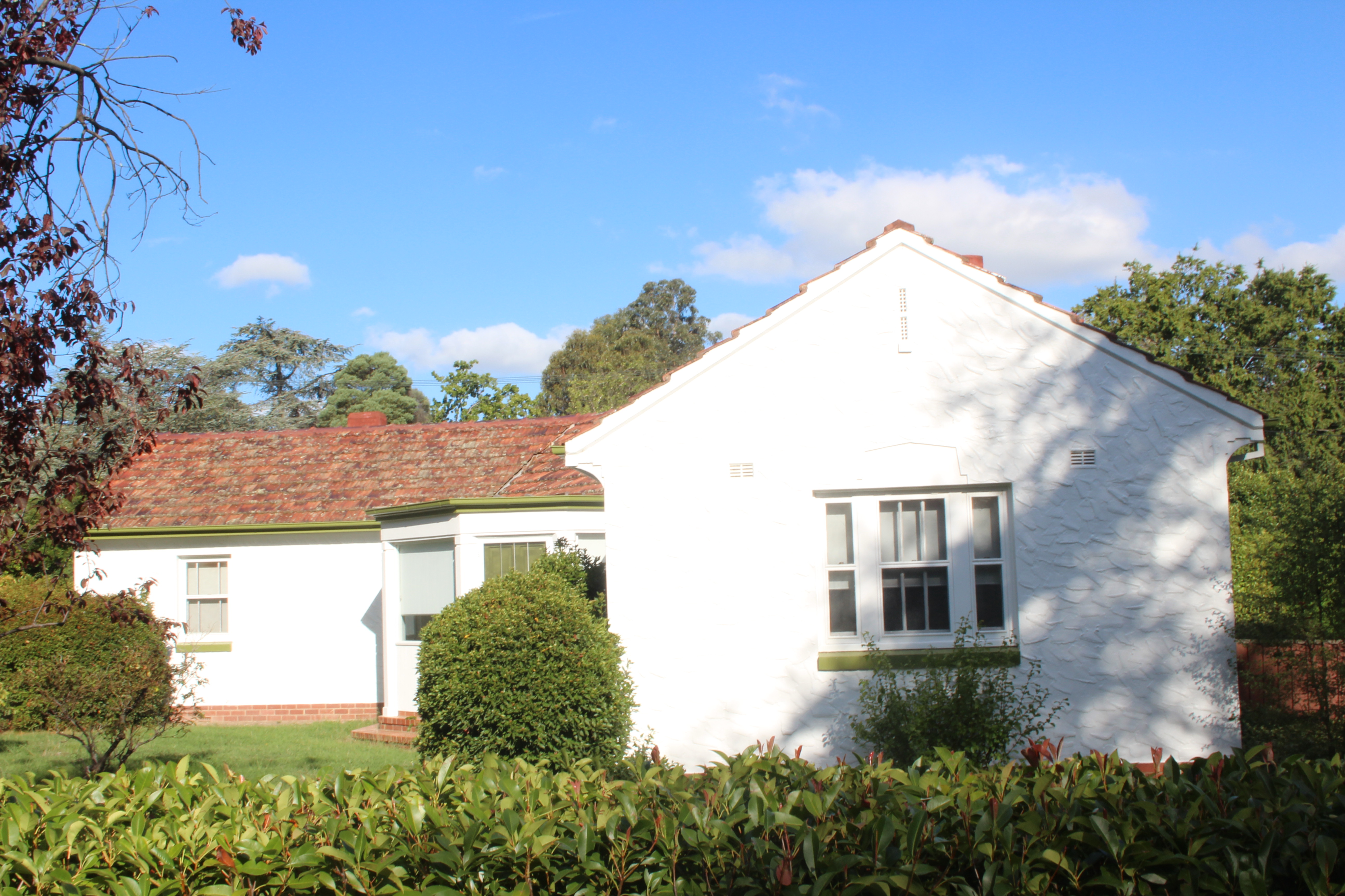 Reid Housing Precinct house